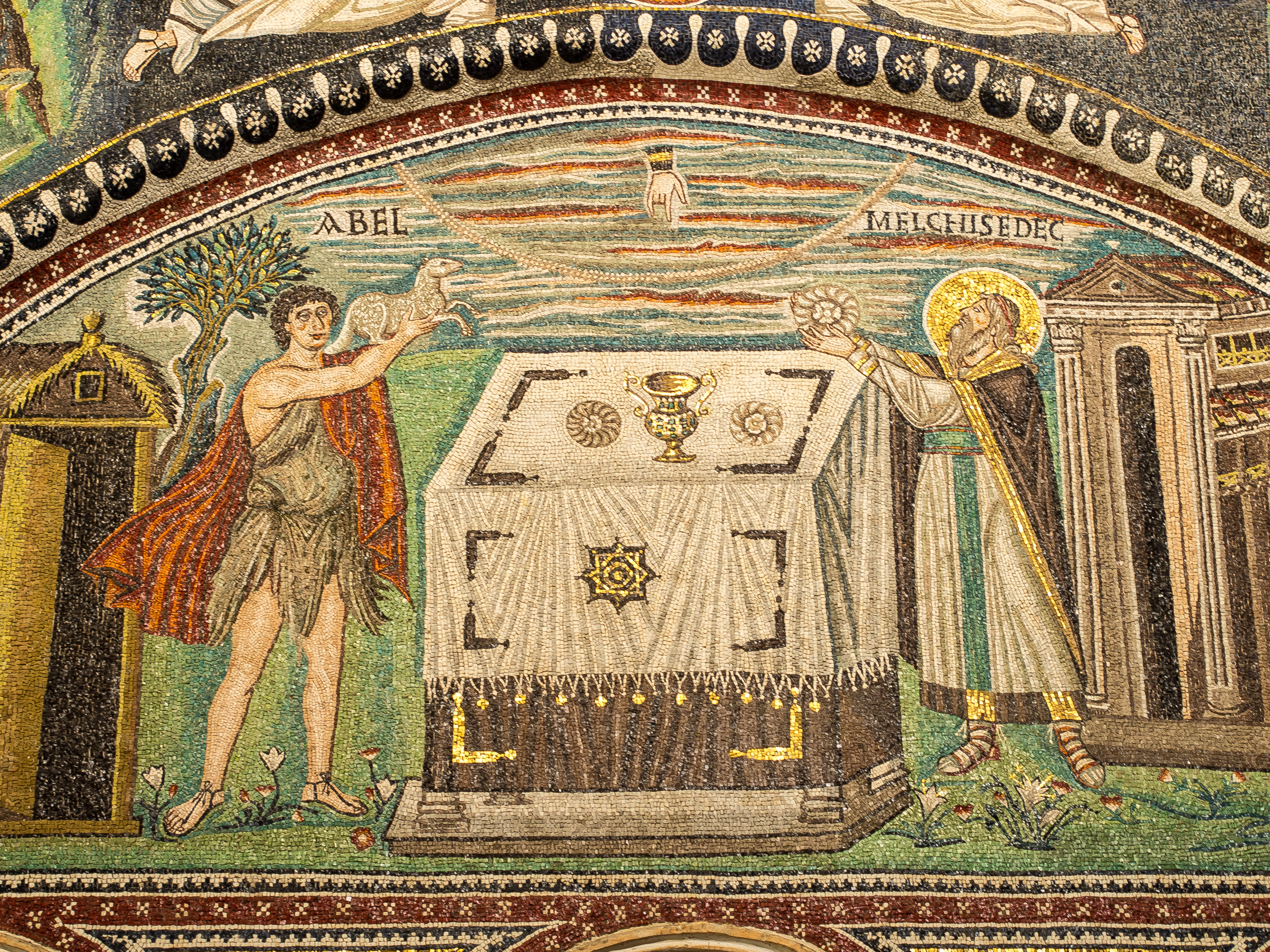 Ravenna - Basilica of San Vitale - mosaic